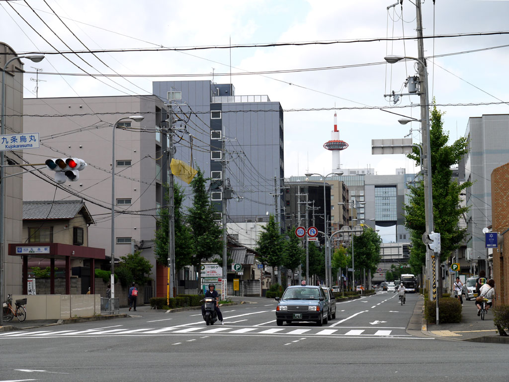 Kyoto Subway Karasuma Line Kujo Station Entrance No2